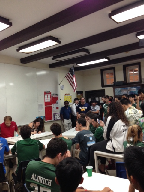 A National History Bee and Bowl competition.